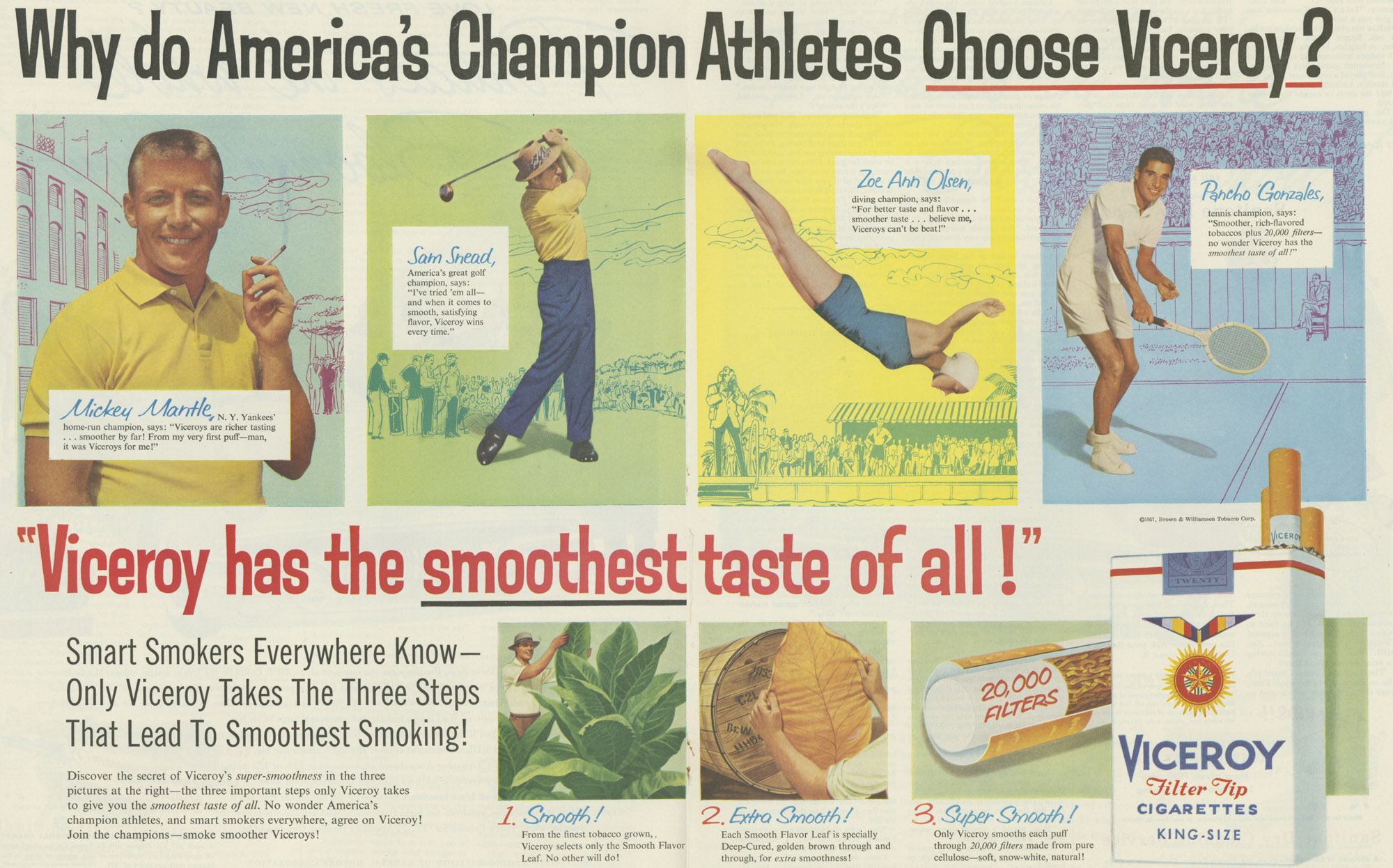 1957 cigarette advertisement for Viceroy cigarettes, with Mickey Mantle, Sam Snead, Zoe Ann Olsen and Pancho Gonzales